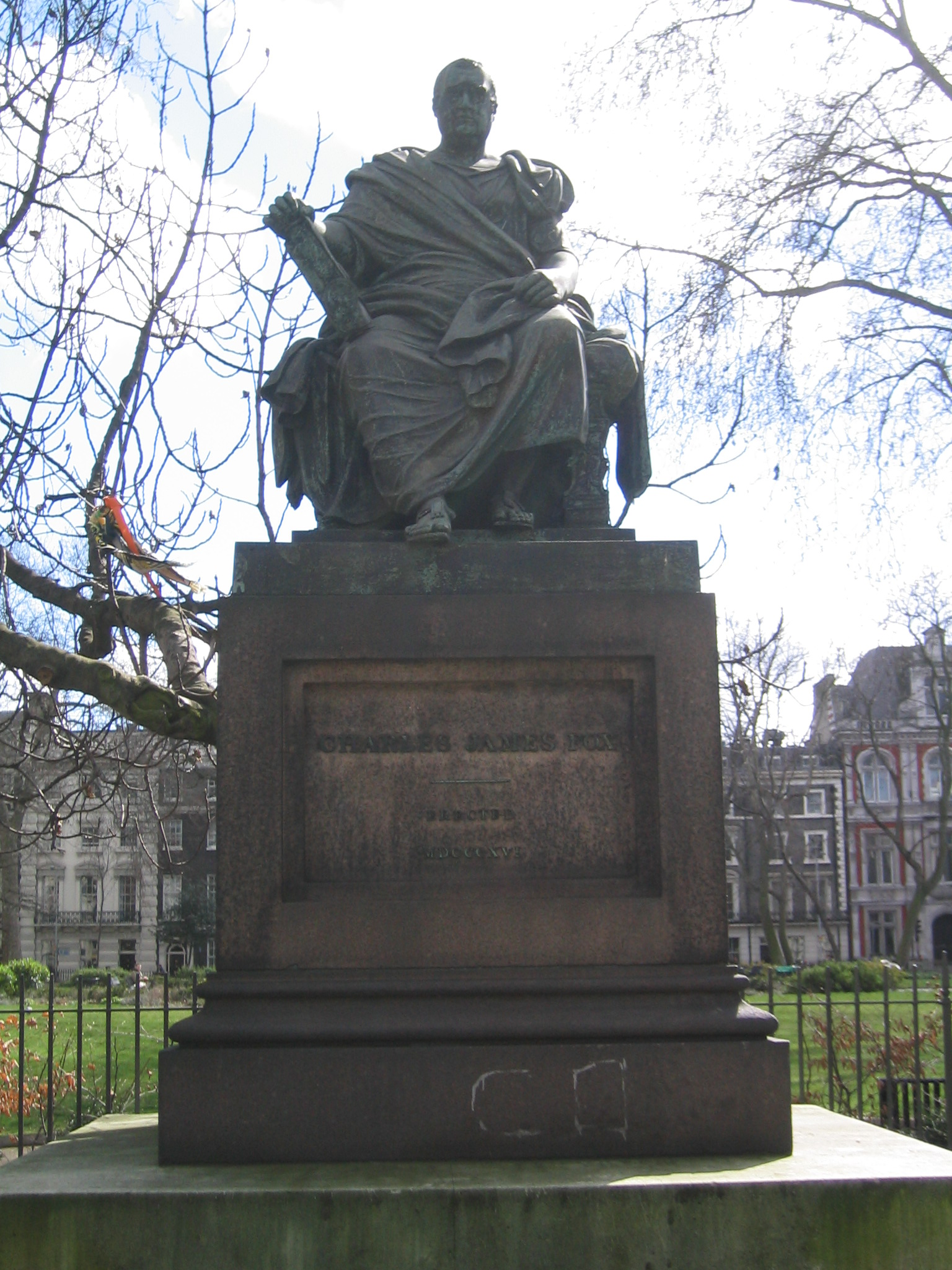 Statue of Charles James Fox in Bloomsbury Square, London, UK. Erected 1816.